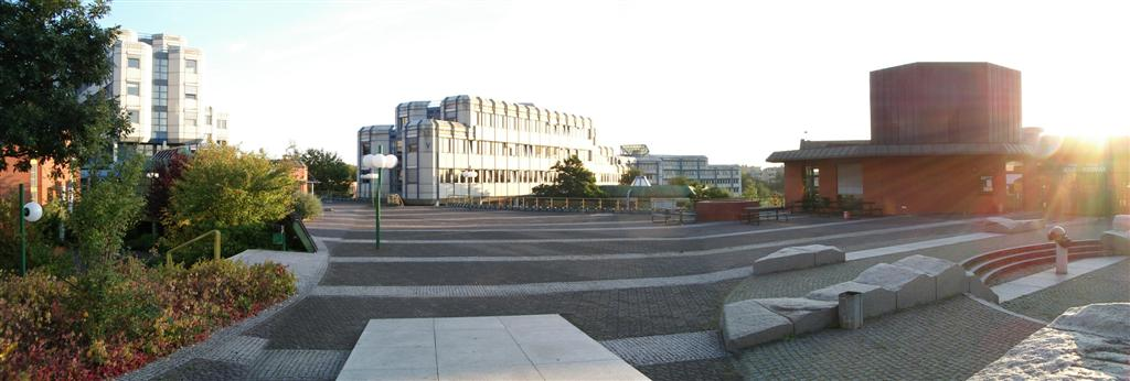 University of Trier, Main campus, southern view